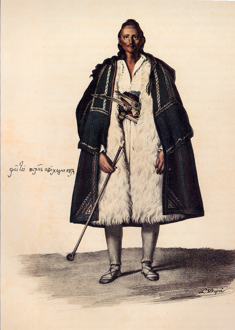 The Souliote Foto Pikos.